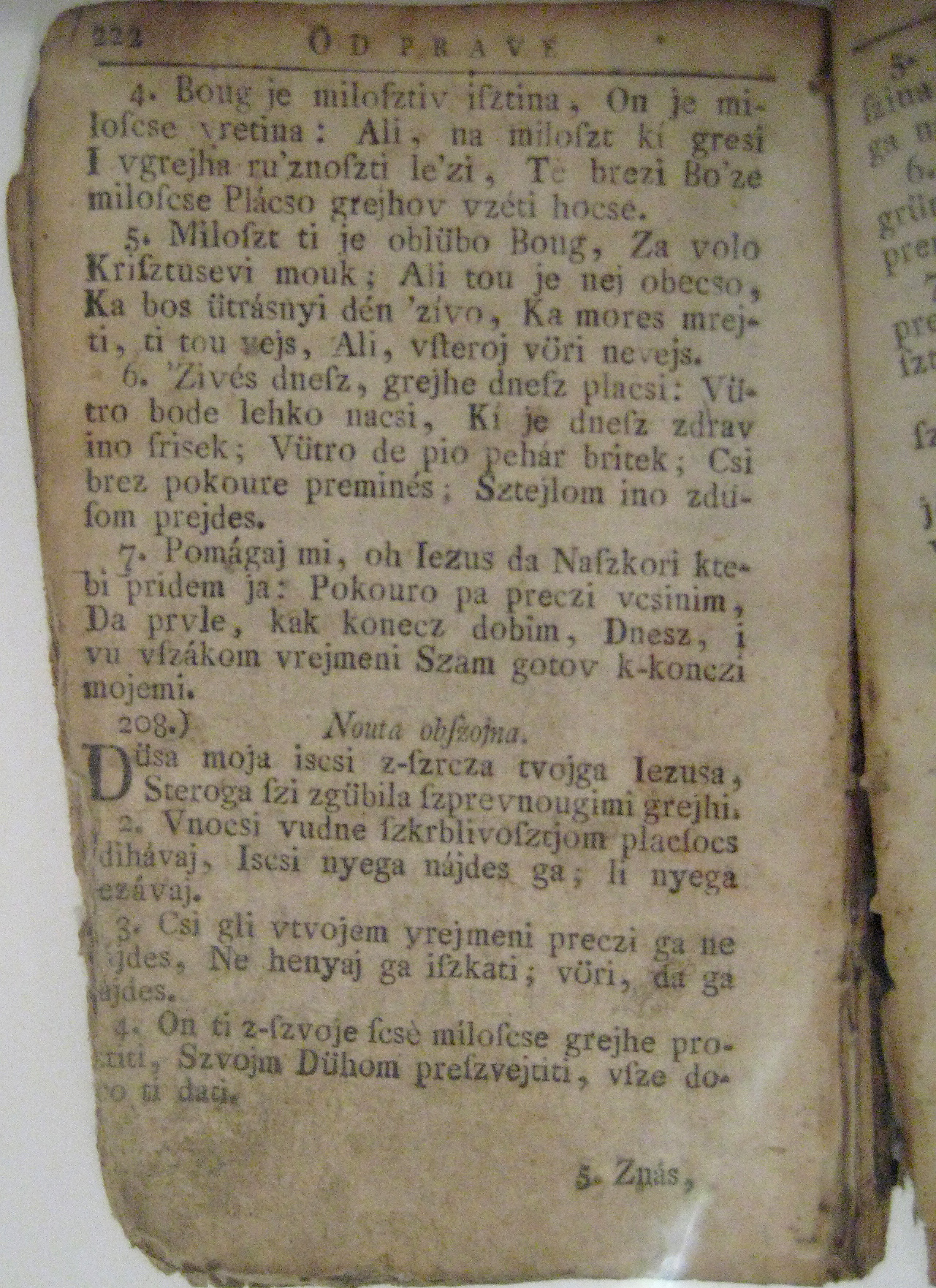 An page of the Nouvi Graduál (New Gradual) of Mihály Bakos, written in Prekmurian language (prekmurščina), subdivision of Slovenian language